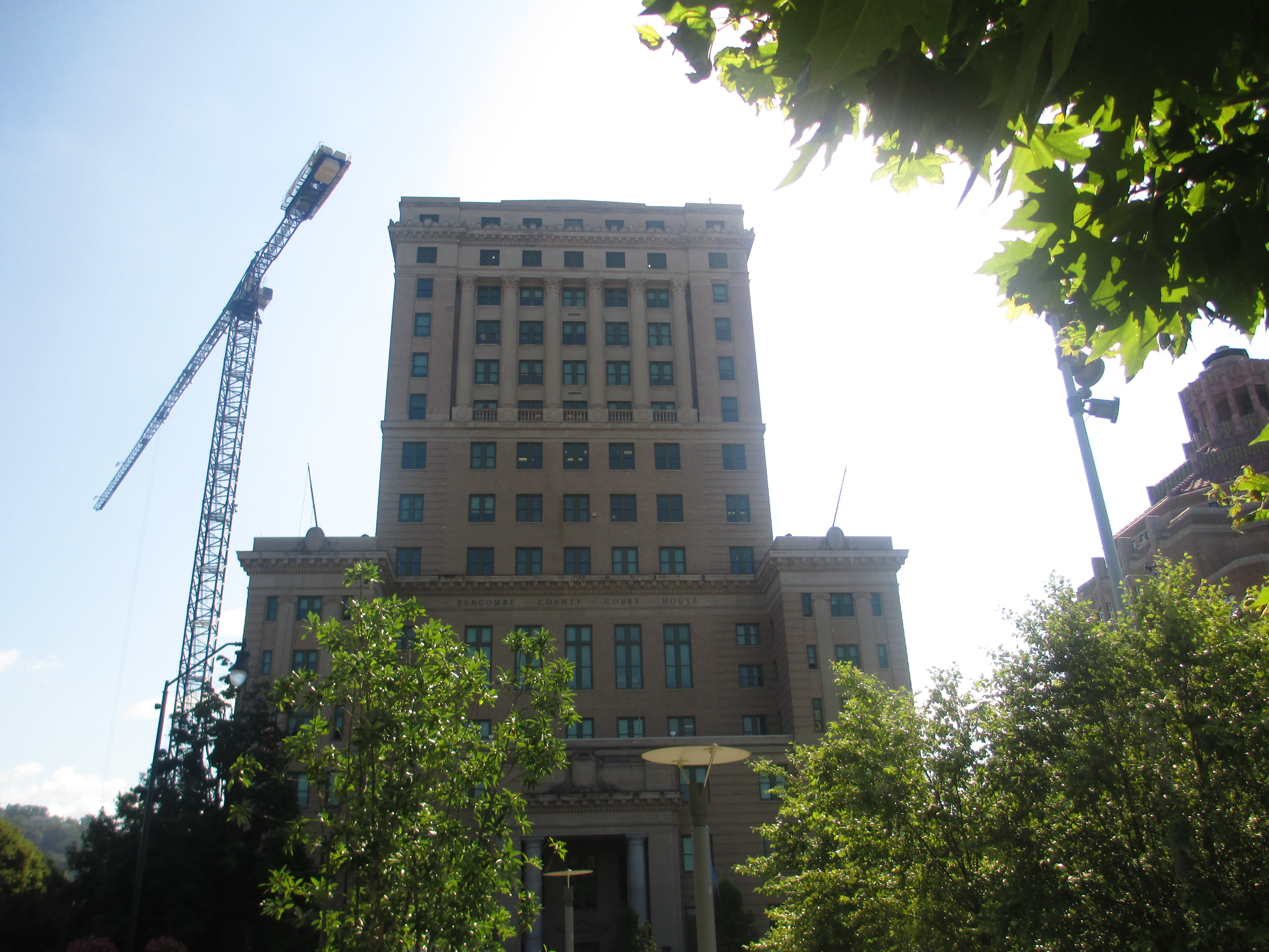 I took photo of Buncombe County Courthouse in Asheville, NC, with Canon camera.